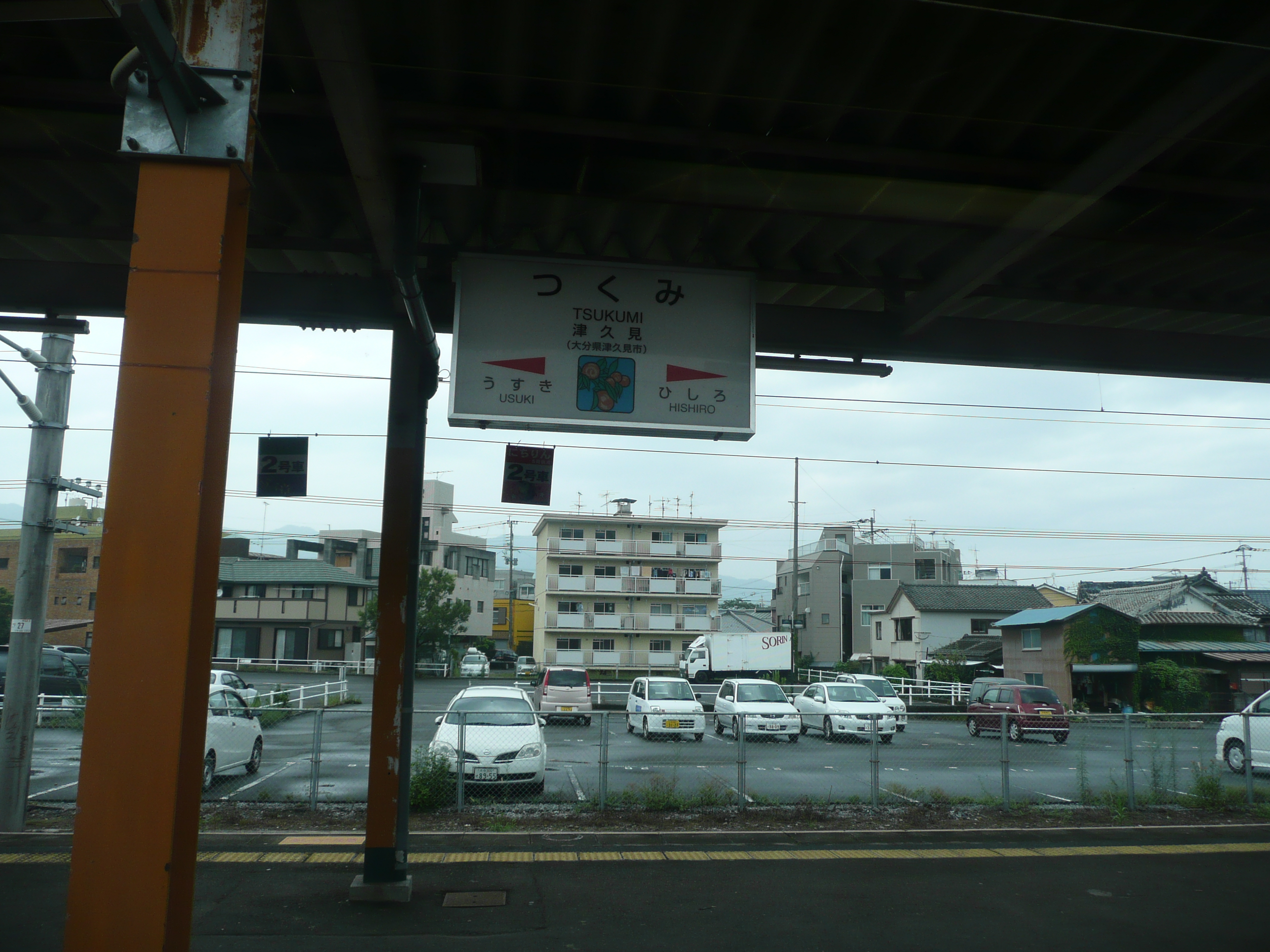 Tsukumi Station